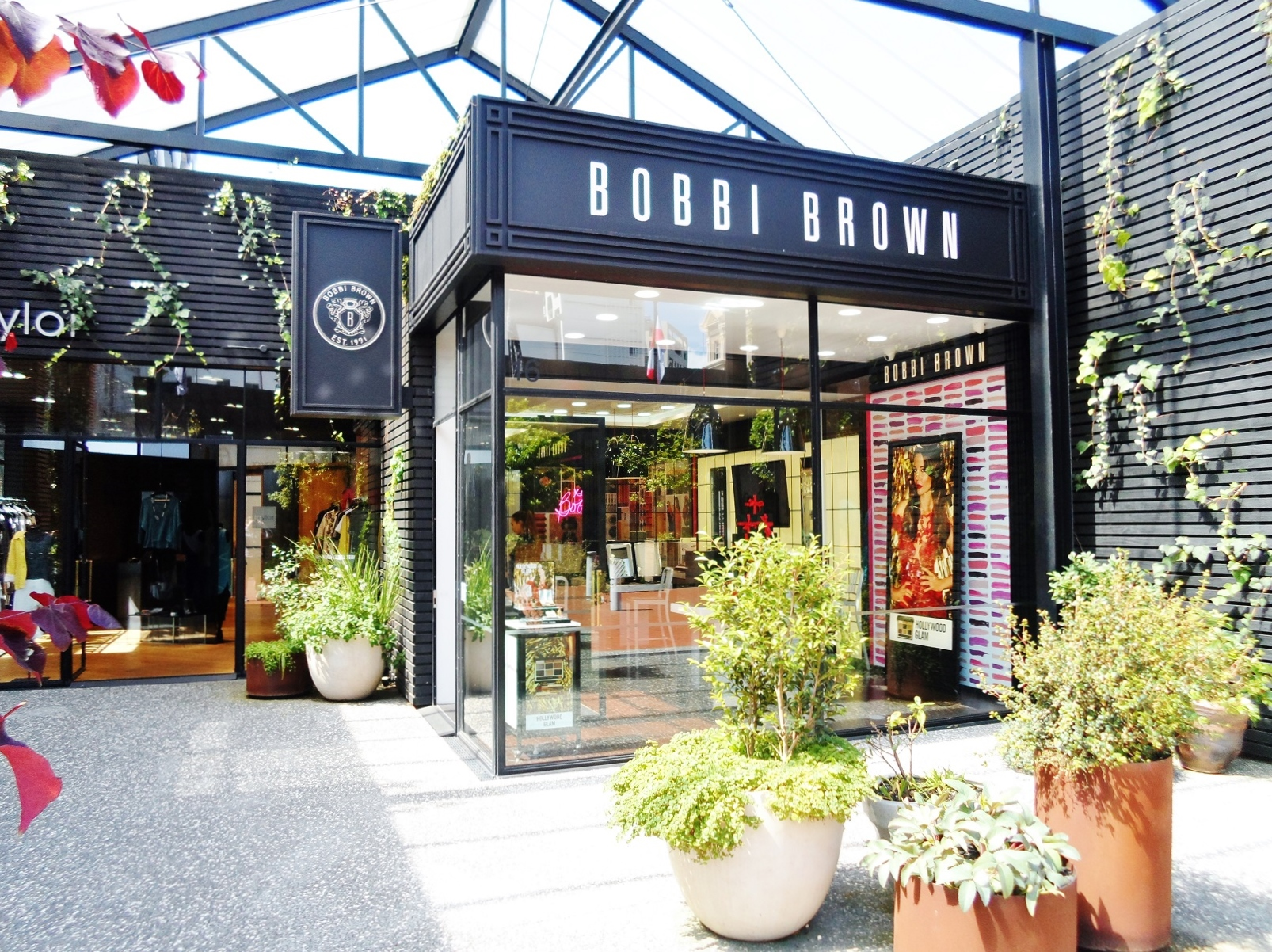 Australasian flagship store of American cosmetics brand Bobbi Brown in The Pavilions at Britomart in downtown Auckland, New Zealand in 2013.